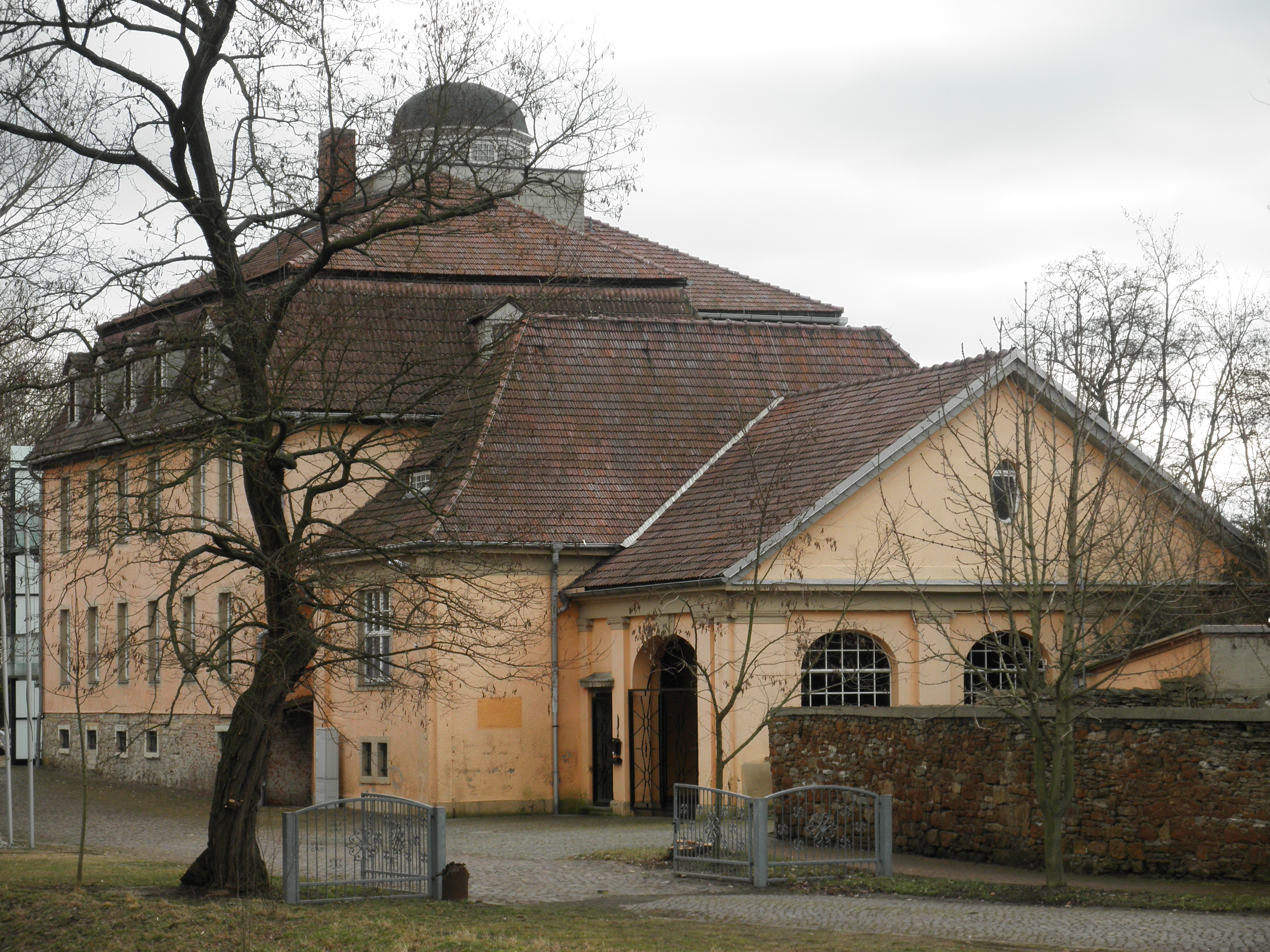 Manor House in Guthmannshausen in Thuringia